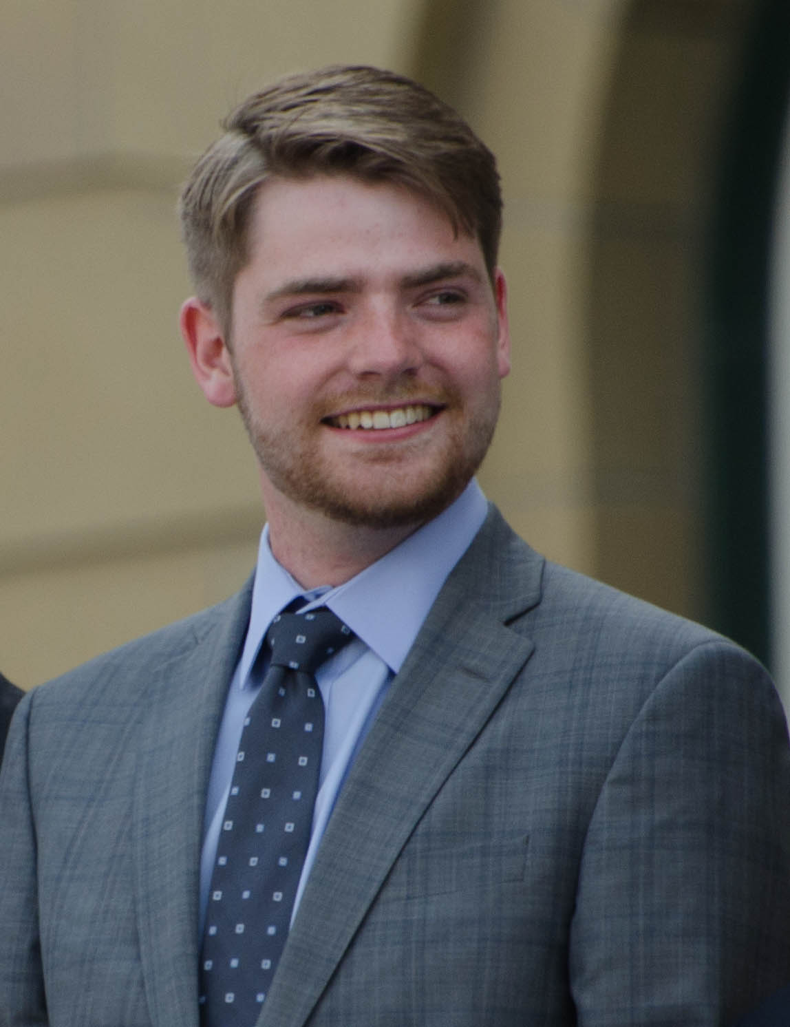 Michael Connolly at the 2015 Alberta Premier/Cabinet swearing-in ceremony, by Connor Mah.